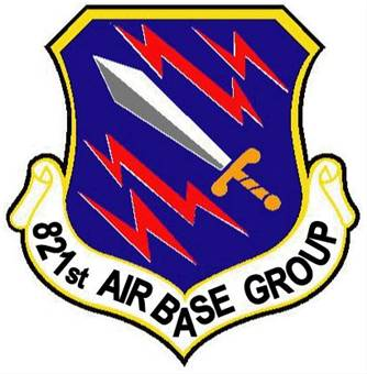 821st Air Base Group emblem